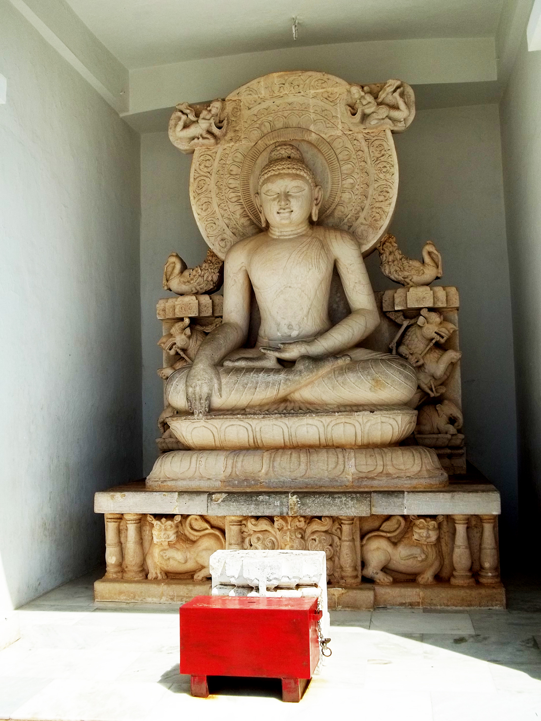 Buddha statue, Dhauli, Bhubaneswar, Odisha, India.